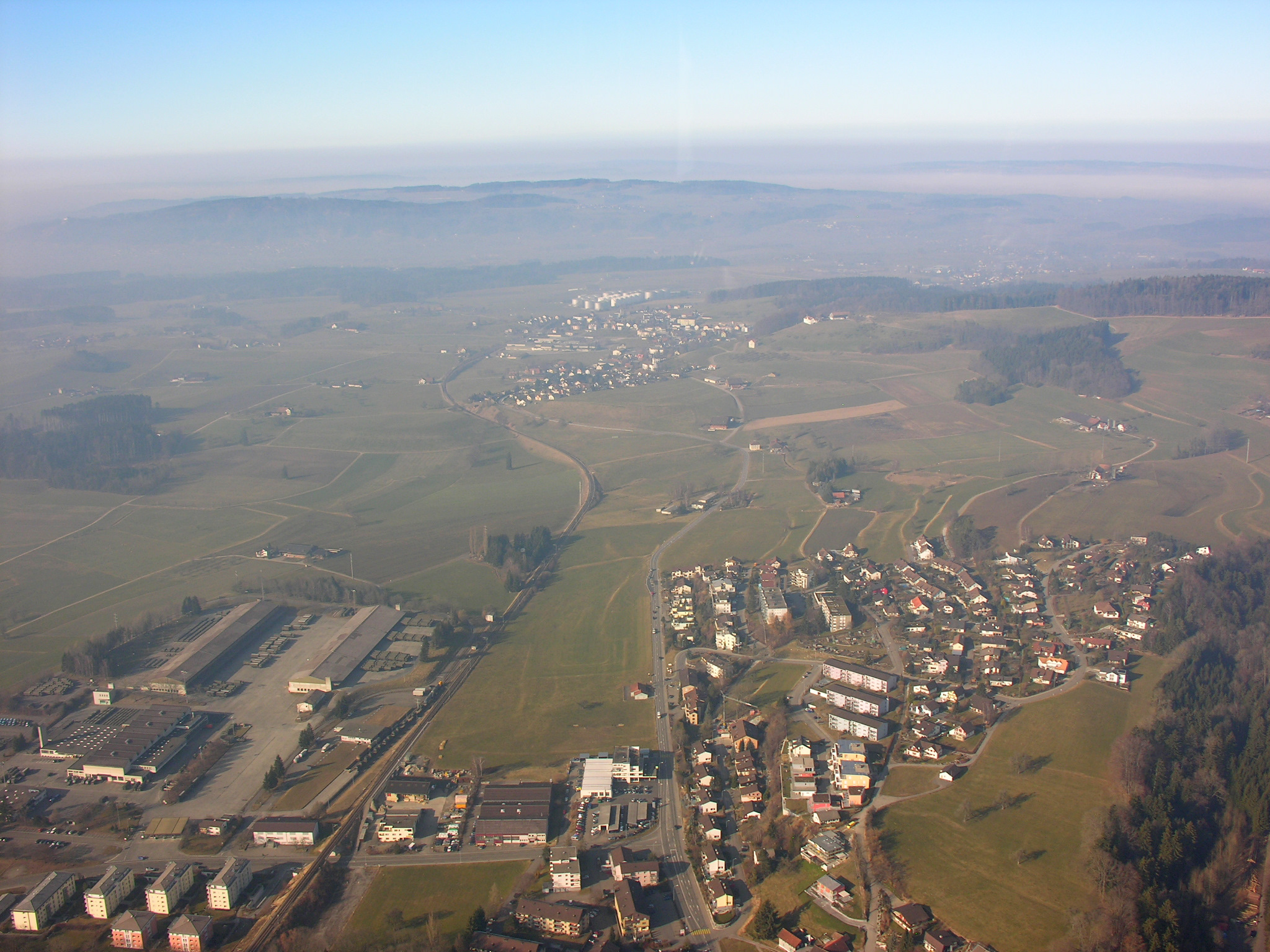 Aerial View of Bronschhofen